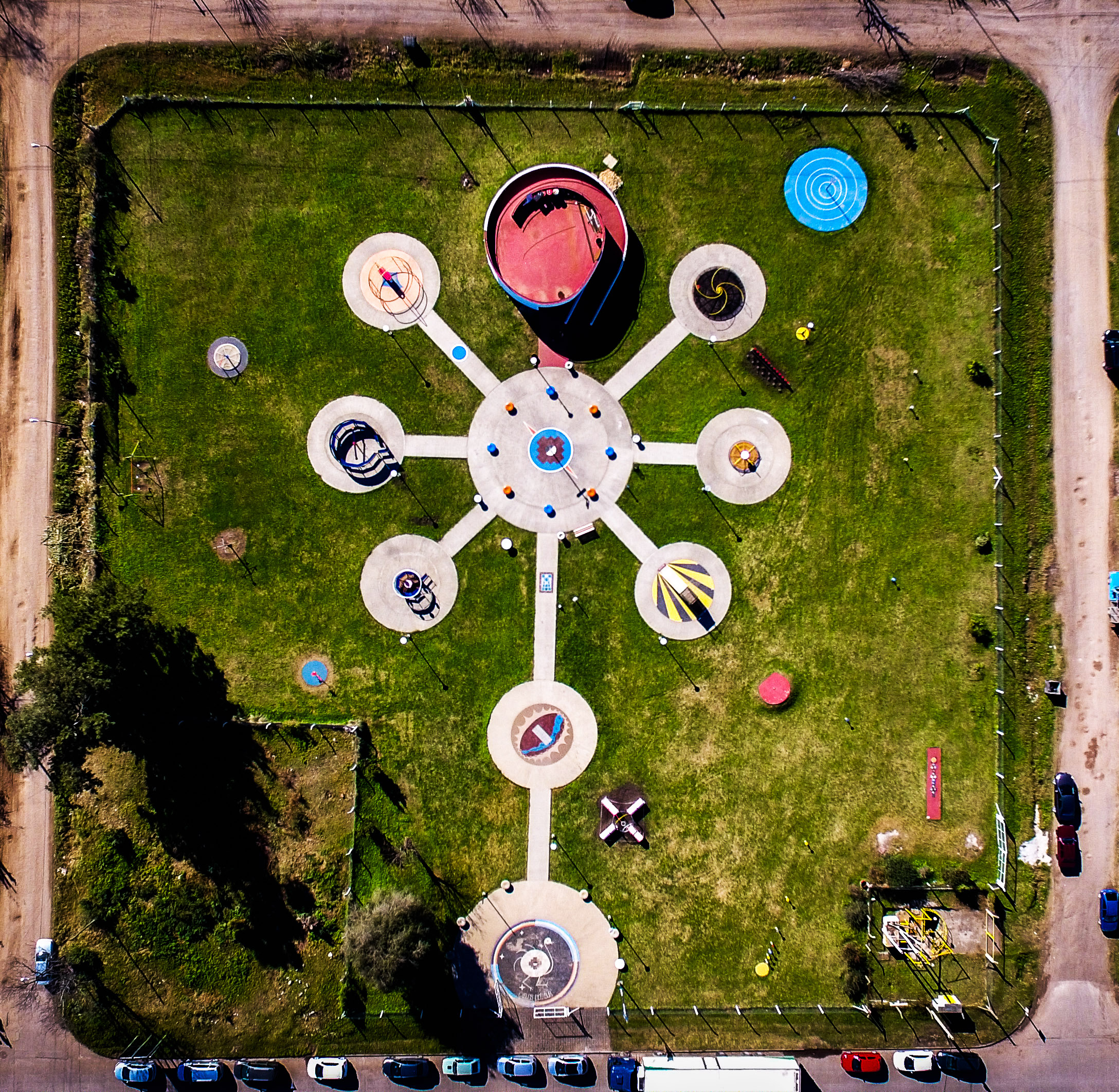 Foto aérea del Parque Cielos del Sur (Chivilcoy, Bs As) tomada en el año 2017.